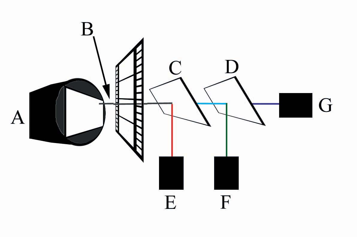 Created by Jay Holben (User:LACameraman). Originally appeared in American Cinematographer Magazine May 1999 "From Film to Tape" p. 112 LACameraman 23:03, 1 July 2006 (UTC)